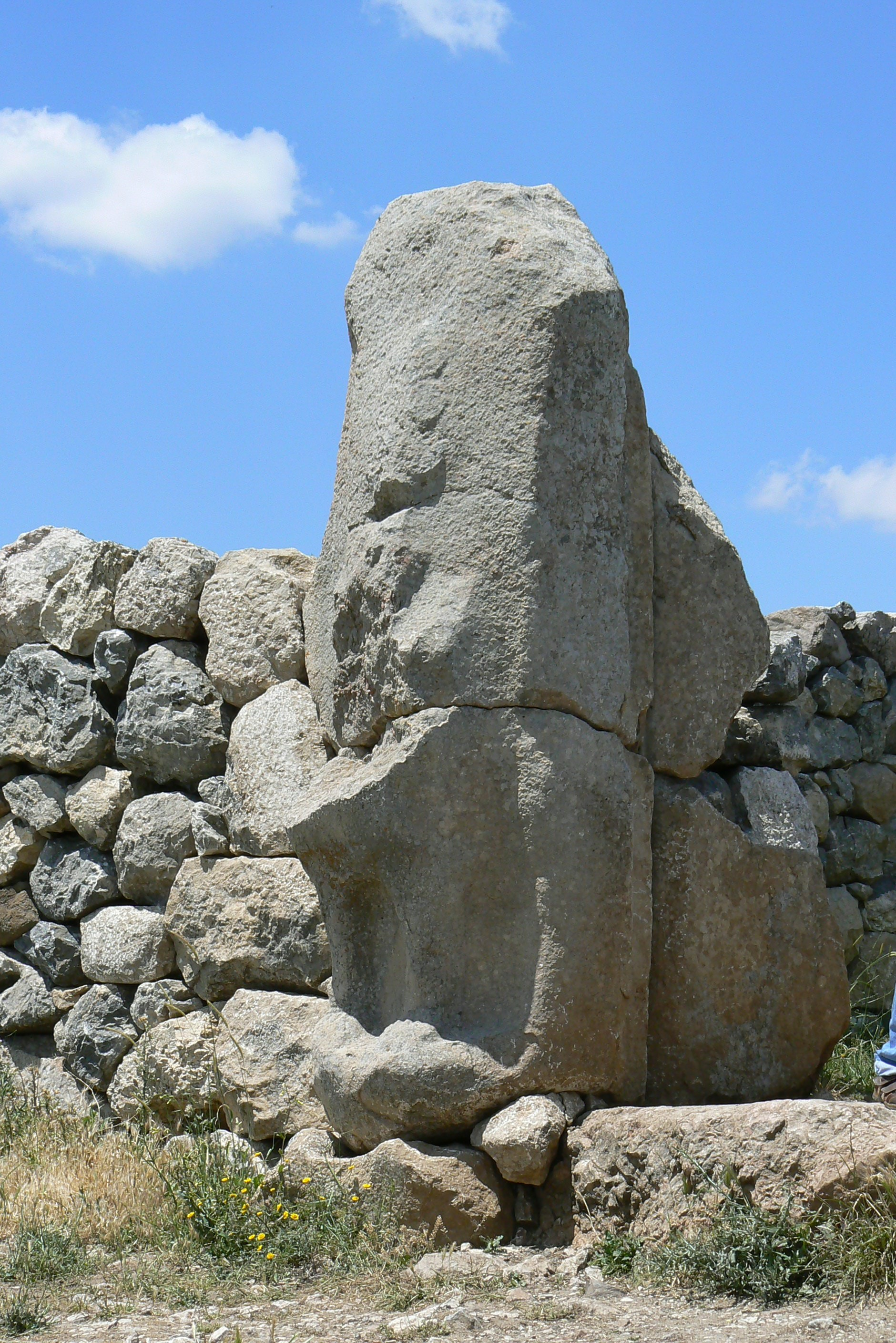 The Sphinx Gate, Hattusa, Turkey